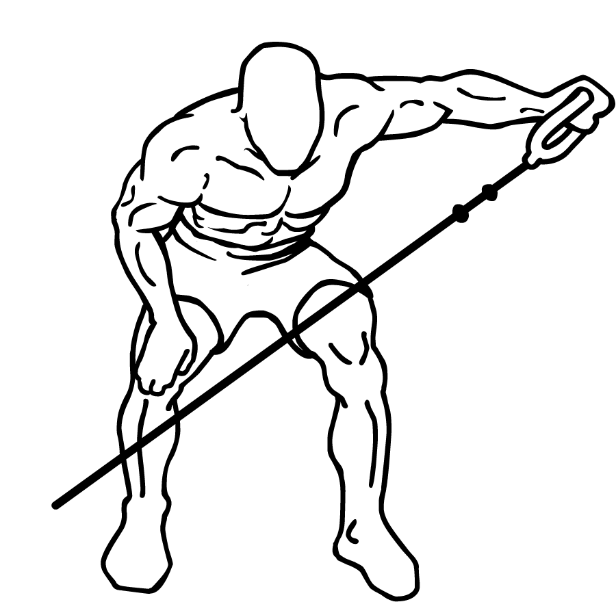 an exercise of shoulders